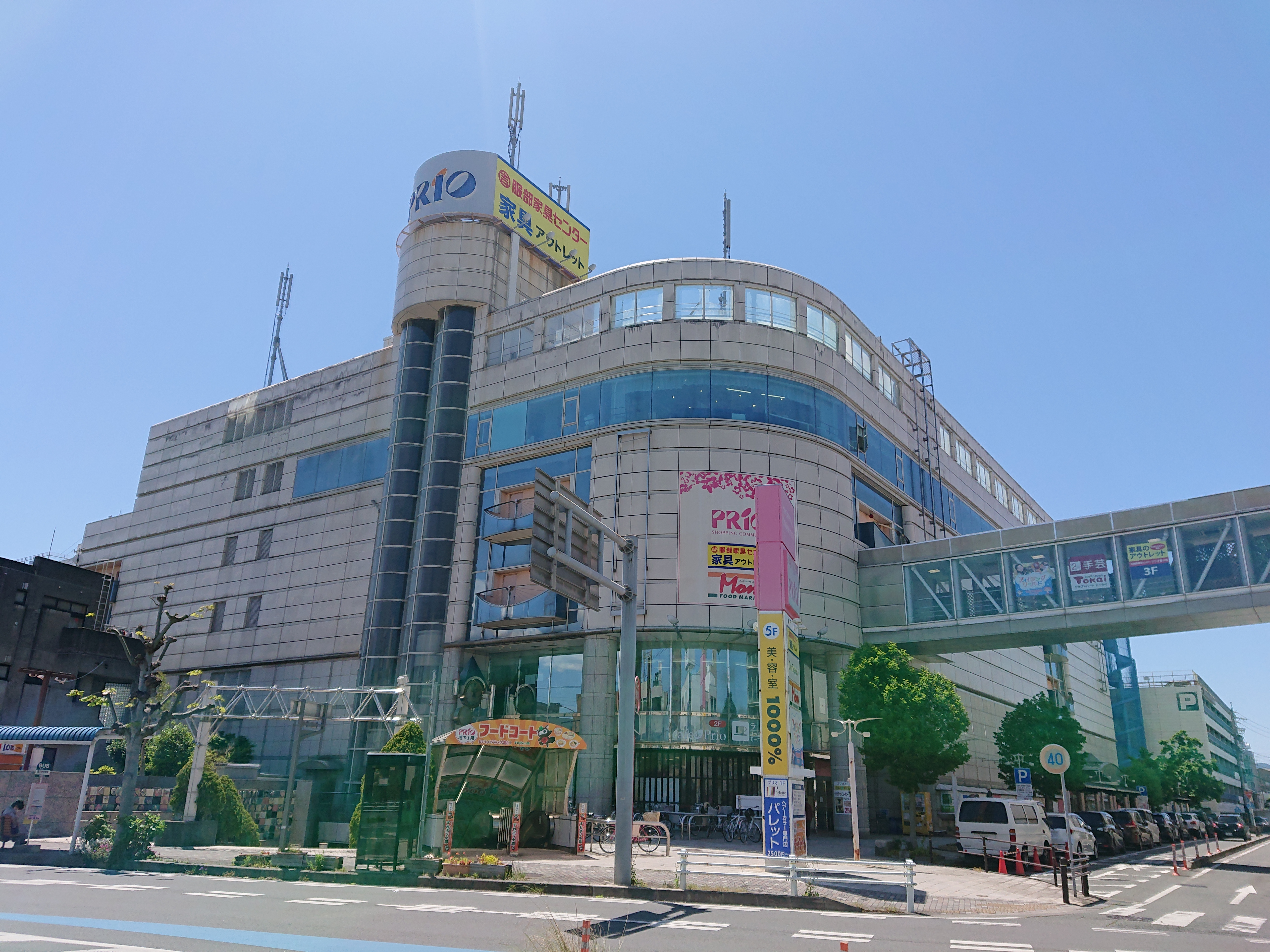 Shopping center "PRIO", located at Suwa, Toyokawa, Aichi, Japan